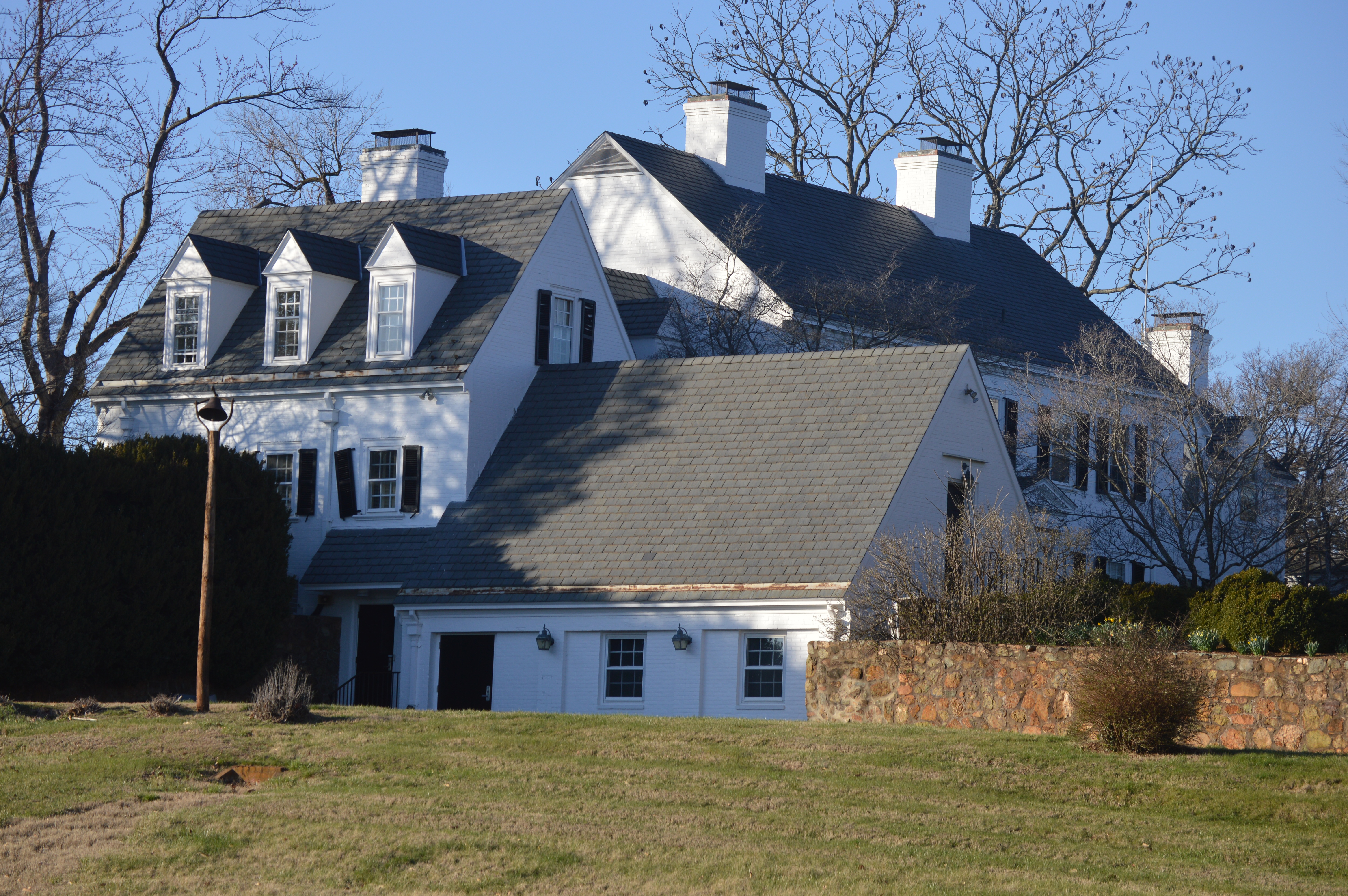 Southern side and front of the Pantops Farmhouse, located on Martha Jefferson Drive southeast of Charlottesville in Albemarle County, Virginia, United States. Built in 1937, it is listed on the National Register of Historic Places, and it is home to the Kluge-Ruhe Aboriginal Art Collection.